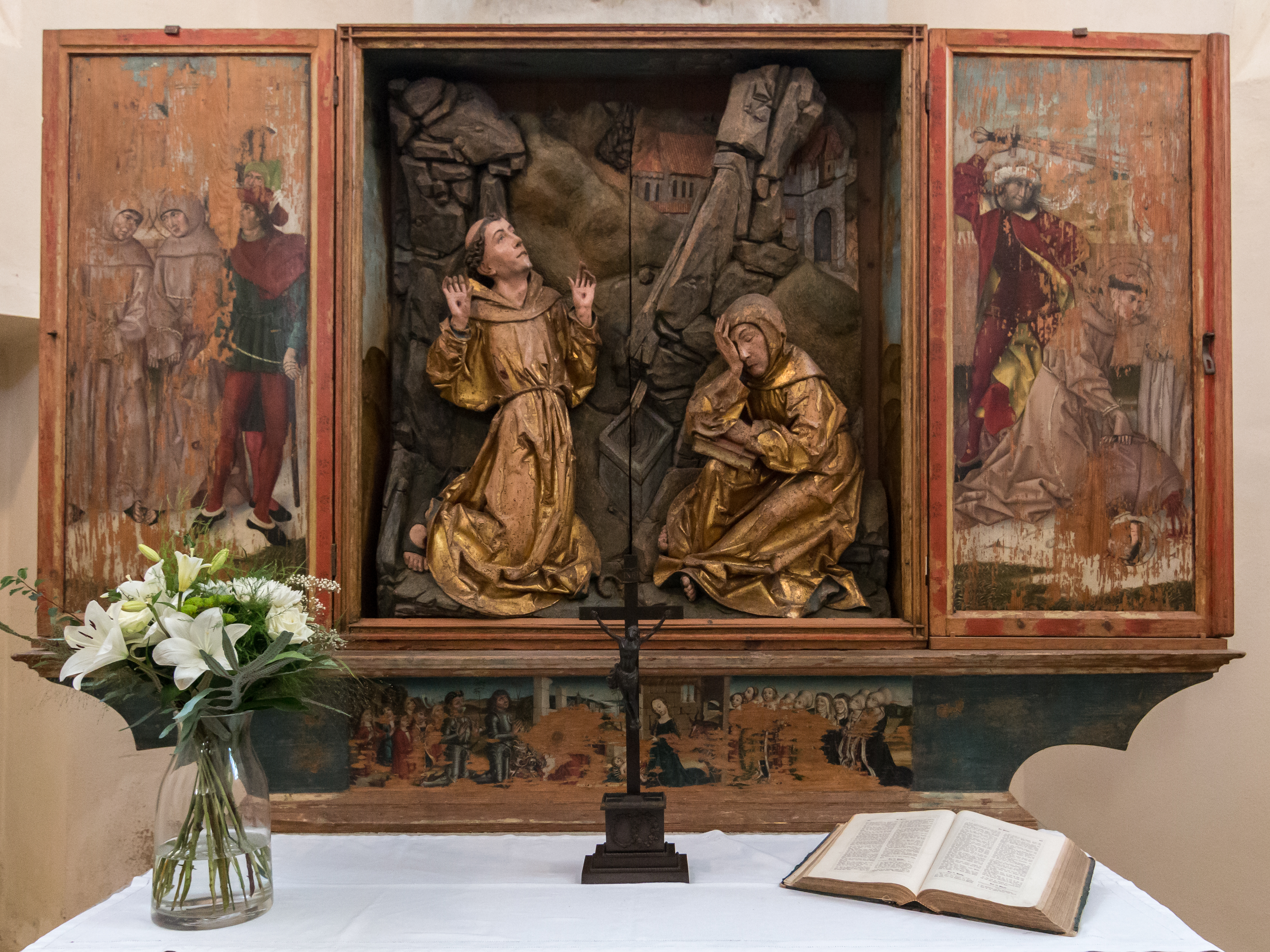 The Francis altar by Tilman Riemenschneider in the Franciscan church in Rothenburg ob der Tauber